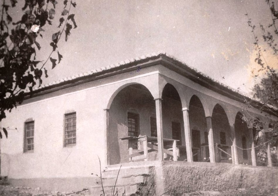 School in Negorci, photo from 1931 This media file is produced by Wikipedian in Residence in Category:Wikipedian in Residence at DARM in 2016.